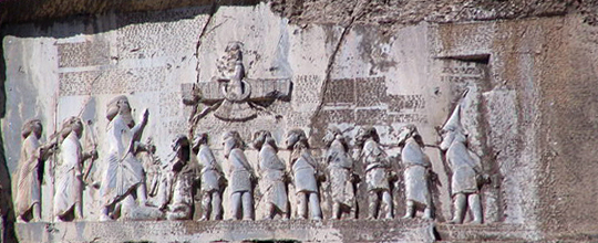 Darius I the Great's inscription. Possibly an influence in the stele series for the Ptolemies, III, IV, and V-(V for the Rosetta Stone); Ptolemy II also had a Victory Stele, though not bilingual.